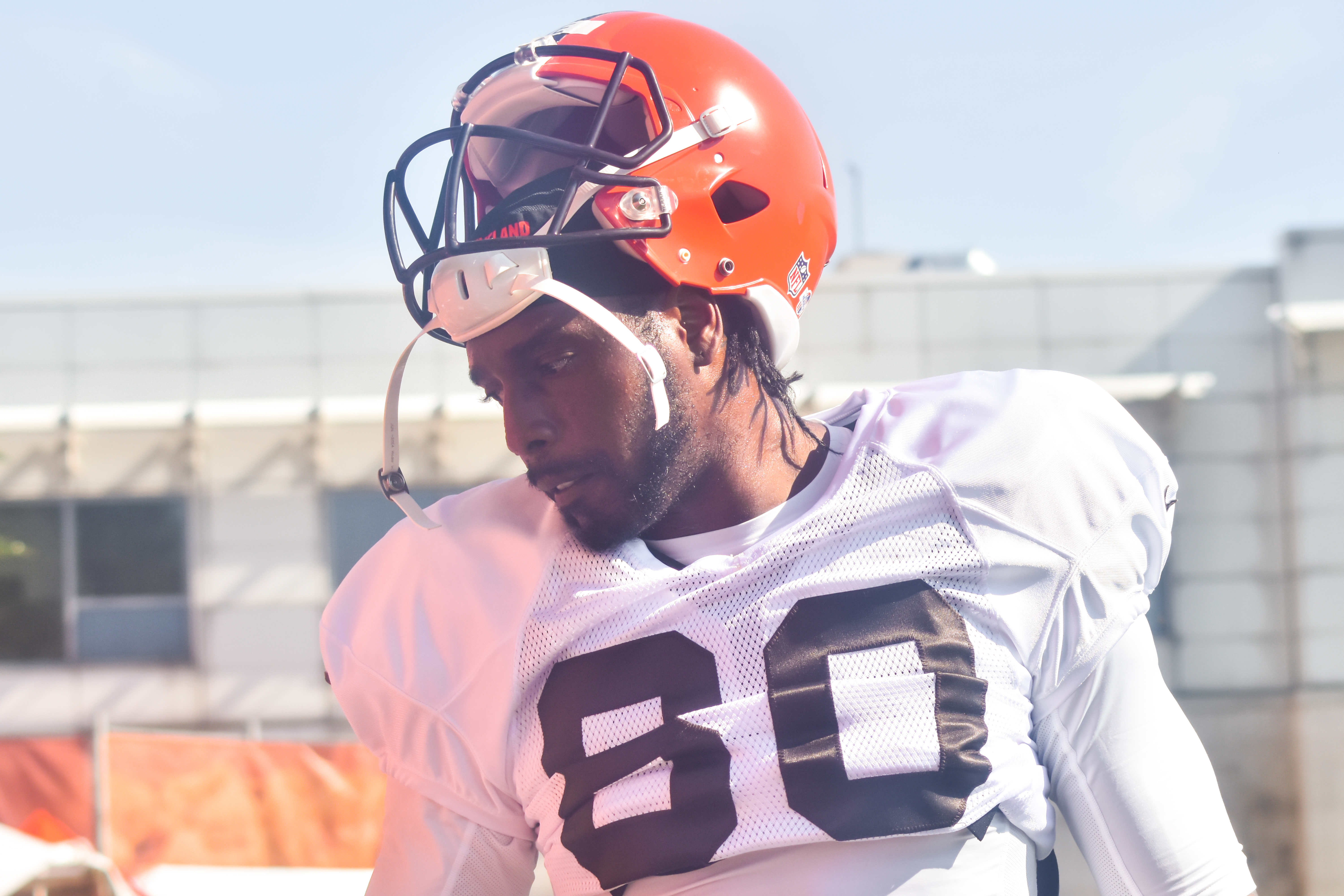 Wide receiver, Dwayne Bowe, at Cleveland Browns training camp in 2015.